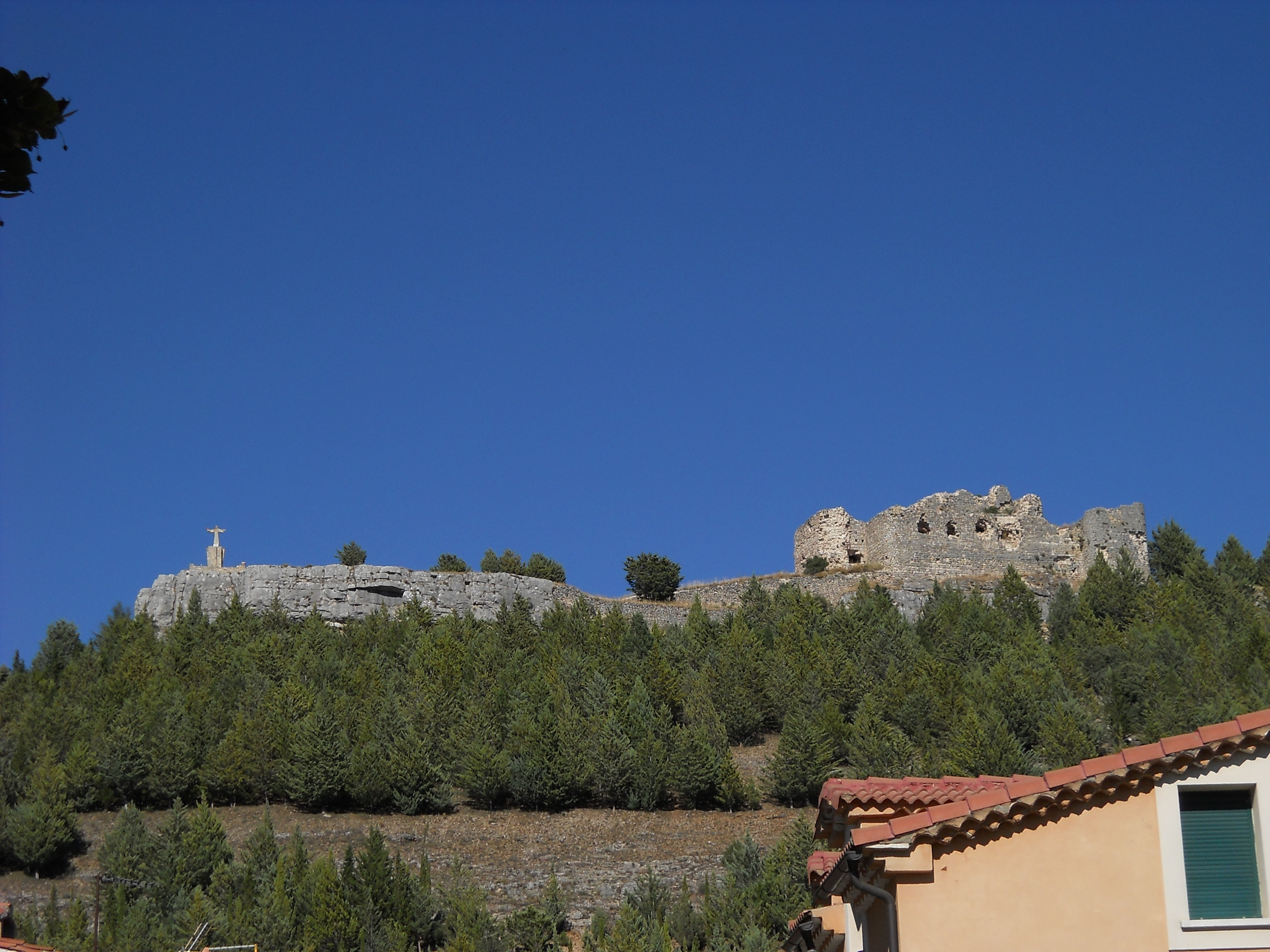 Rochafrida fortress, Beteta, Cuenca, Spain